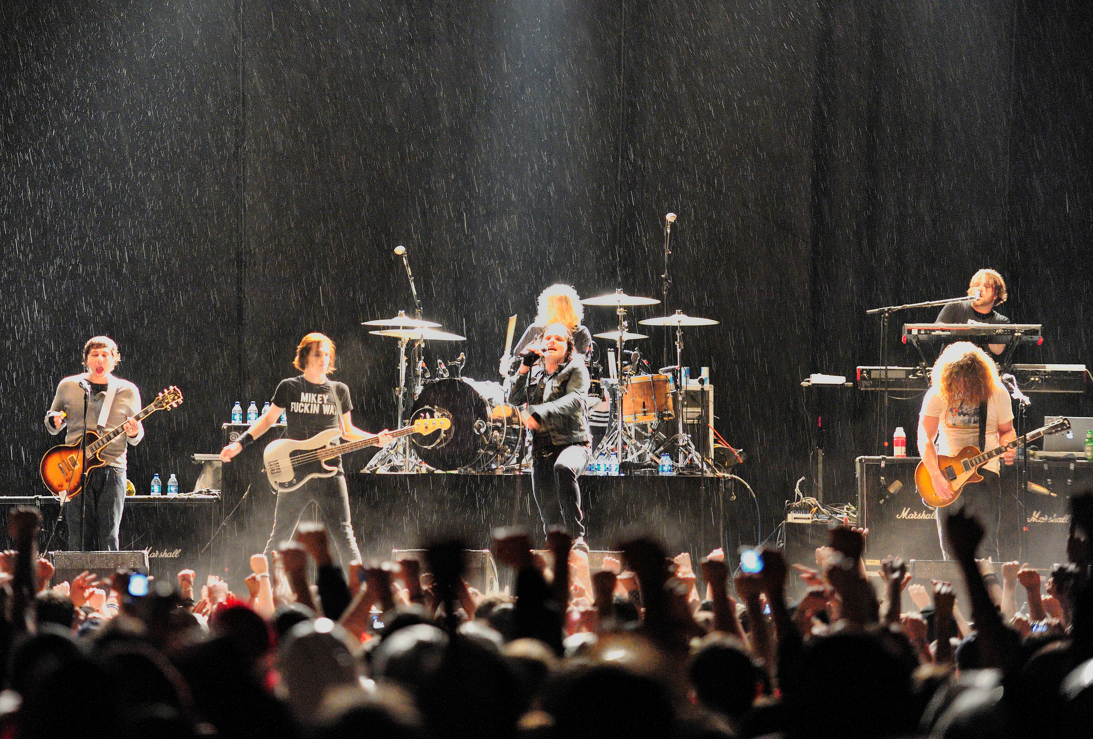 My Chemical Romance performing live down the rain in the Beale Street Festival, in Memphis, Tennessee, United States, during the last leg of their Black Parade World Tour.